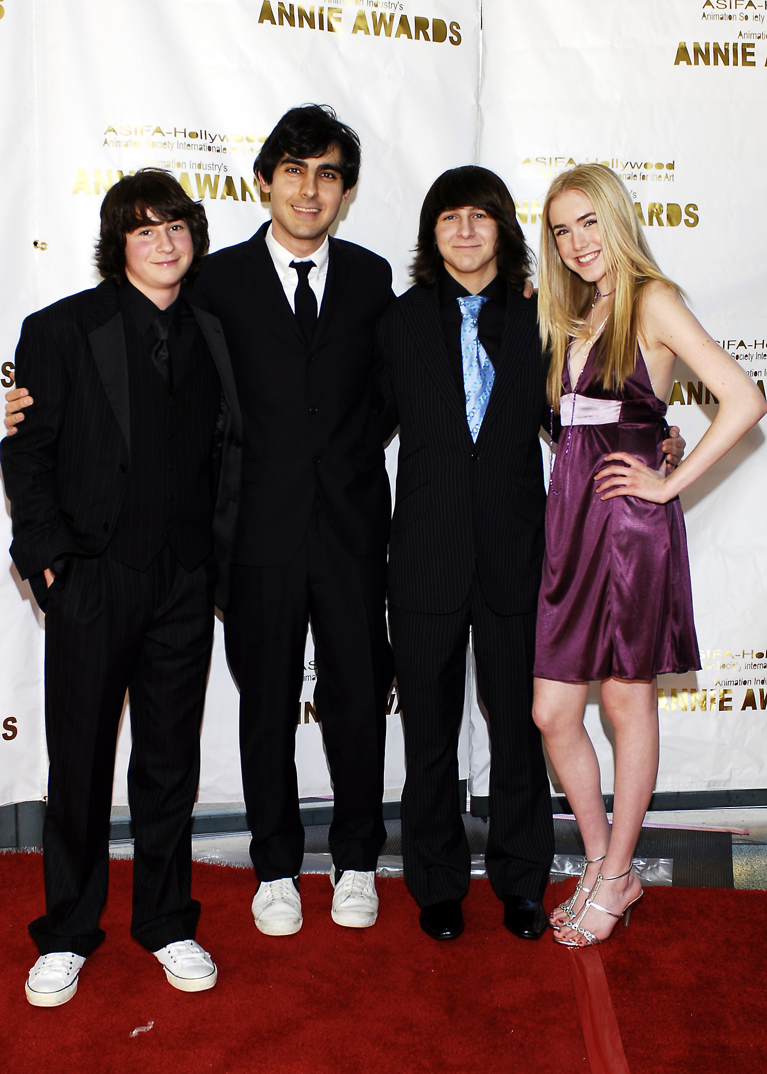 Andrea Bowen at the 2006 Annie Awards red carpet at the Alex Theatre in Glendale, California. Sam Lerner, director Gil Kenan, Mitchel Musso, Spencer Locke.